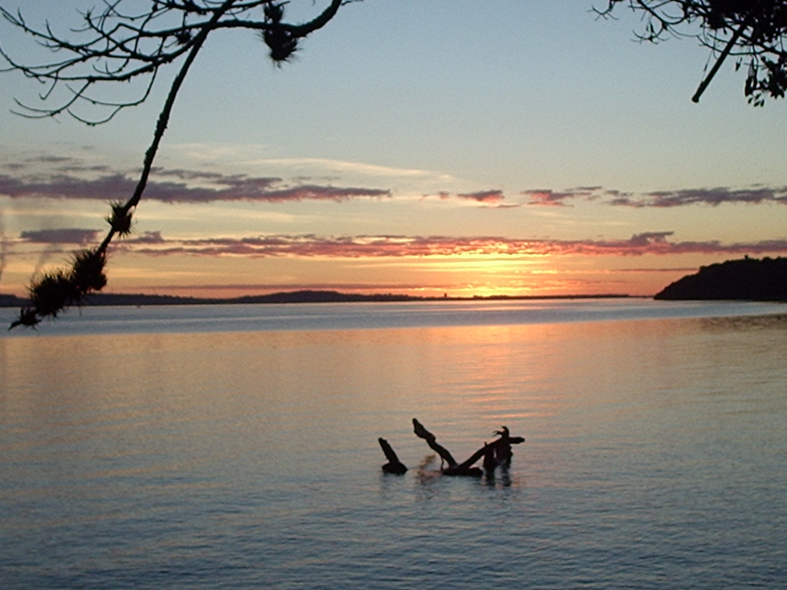 River landscape Guaiba from Ipanema beach